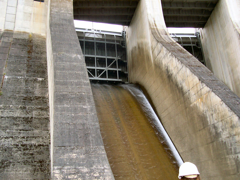 Roxburgh dam spillway. Taken 31/10/06 by myself.